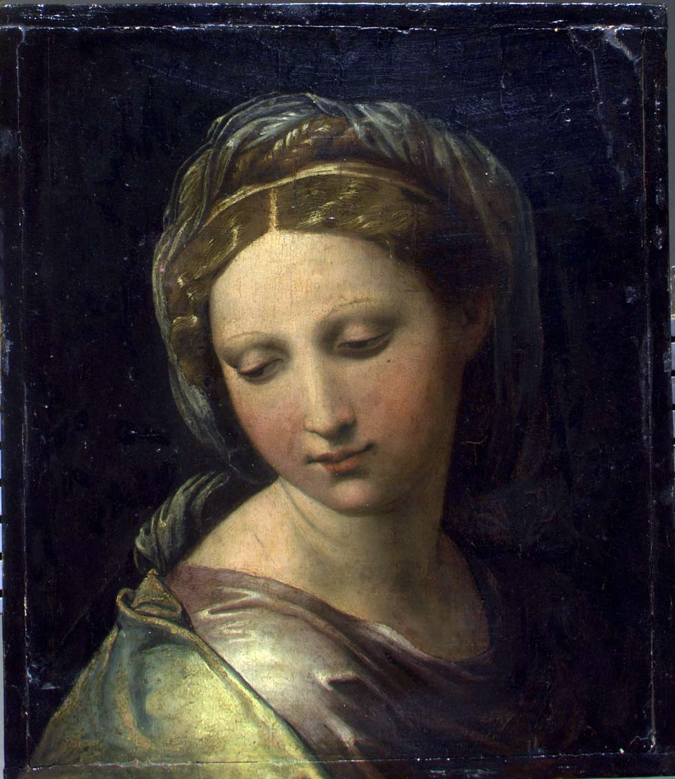 The Perla di Modena is a painted detail of La Perla.